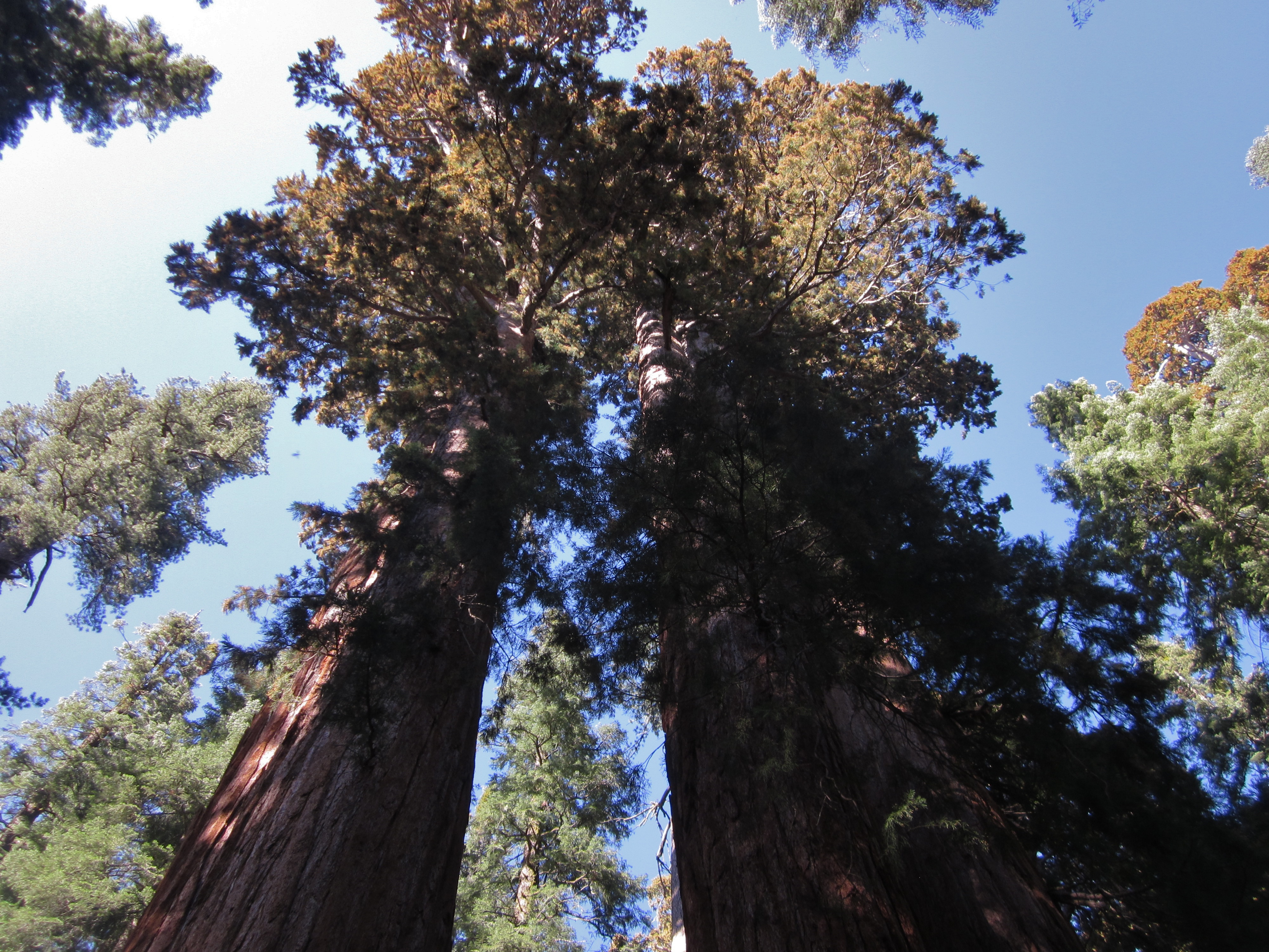 The part of the grove you can visit is right next to the road. The grove itself continues uphill and doesn't have footpaths, but as far as I know may be freely explored - just please don't take anything or step on anything, especially baby sequoia trees! Smartly, signs don't identify where the largest tree in the grove stands - so that it may grow in peace. Similarly, there's somewhere in California the largest oak tree - and it's location is highly guarded so it doesn't get pestered or vandalized - because I believe it also happens to be a rare and endangered species of oak.